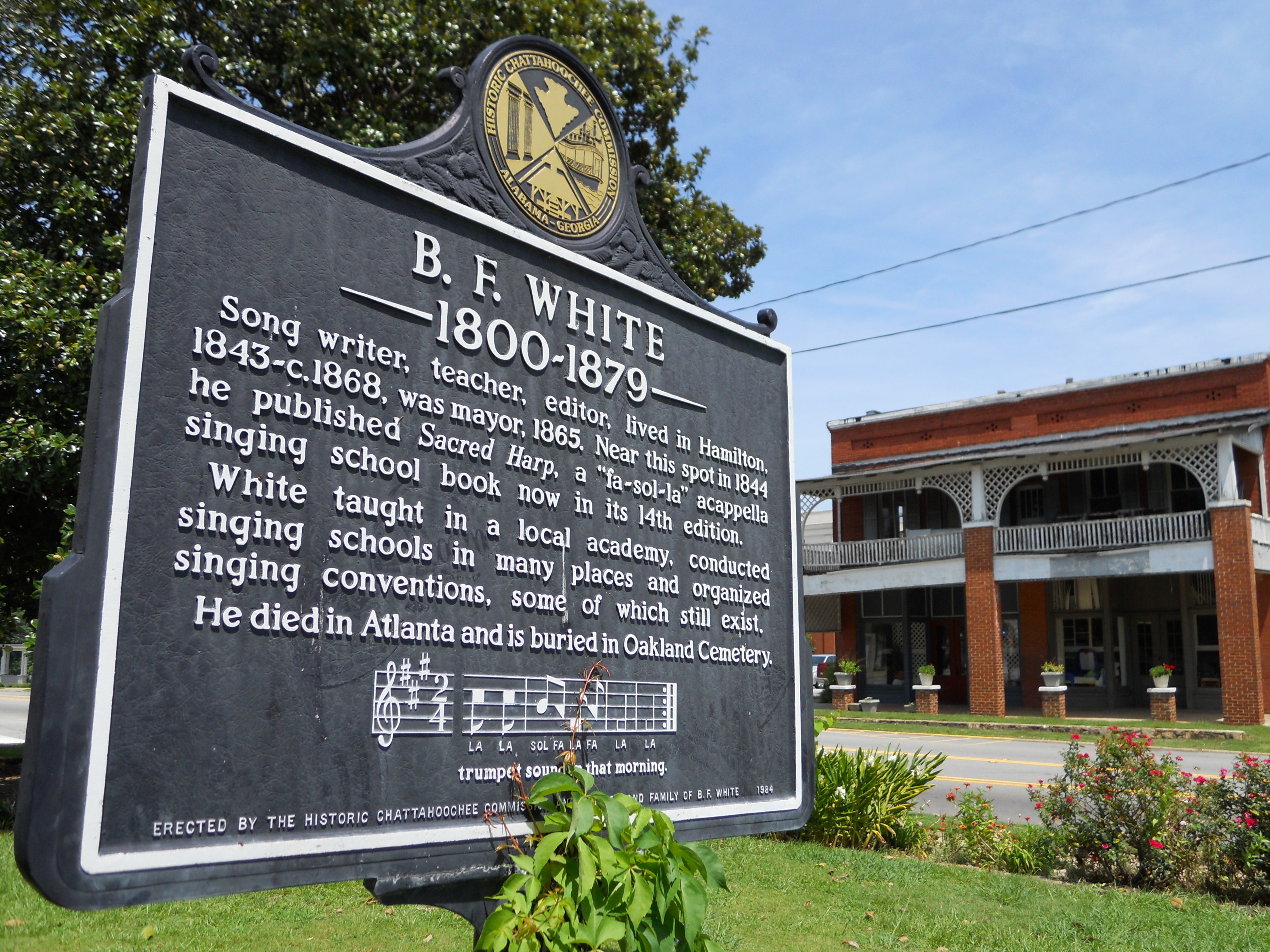 This is a photograph of a historic marker in Hamilton, GA that commemorates the singer, BF White.